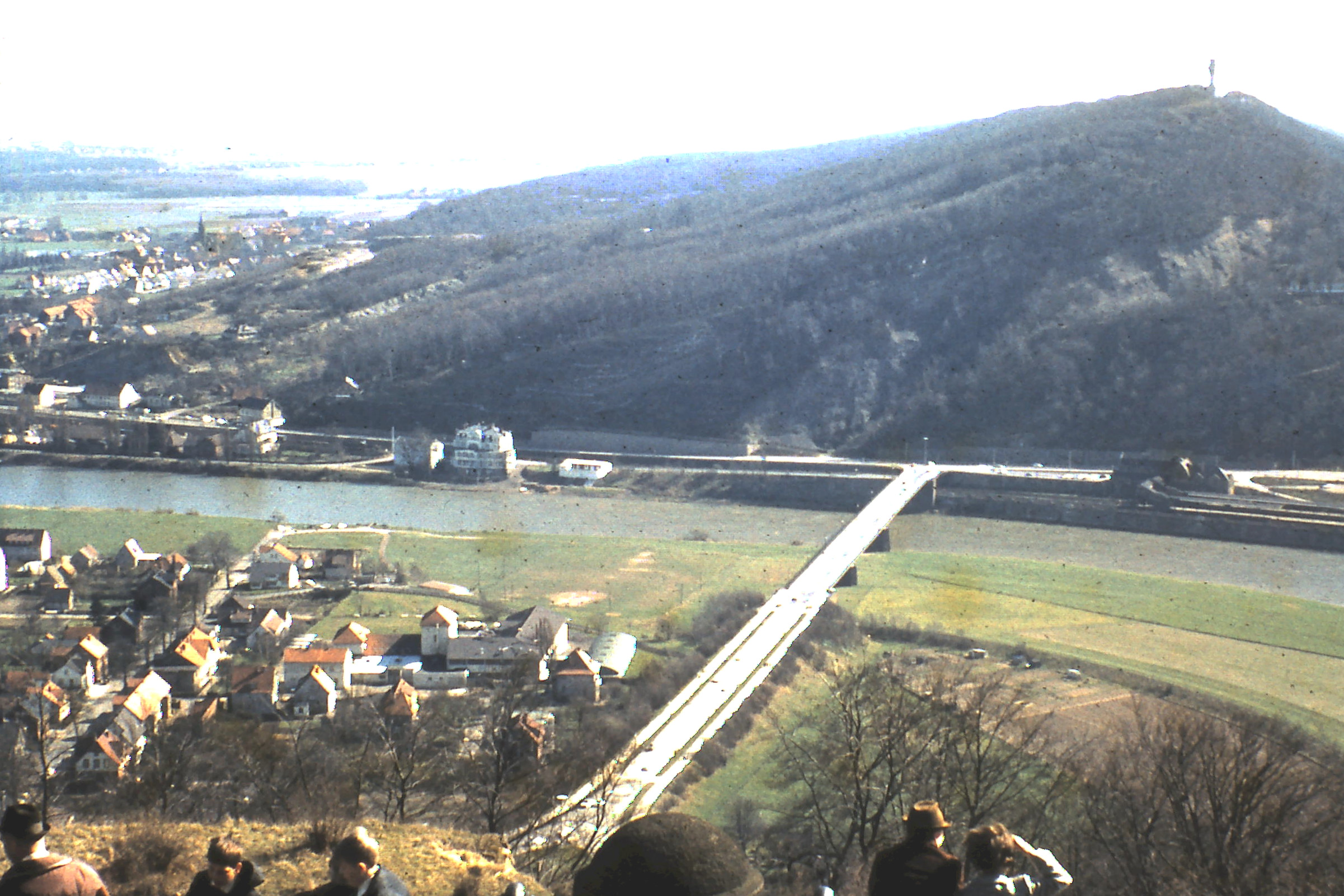 View from the Kaiser-Wilhelm-Denkmal on the Jakobsberg in Porta Westfalica, Germany (see also English Wikipedia: Porta Westfalica)